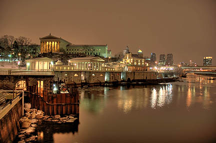 Philadelphia, Pennsylvania, USAWaterworks and the Philadelphia Museum of Art HDR